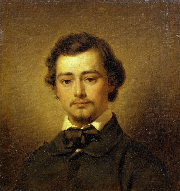 Sephardic Jewish surgeon, Mexican War hero, head of the medical divisio of the Confederate Army